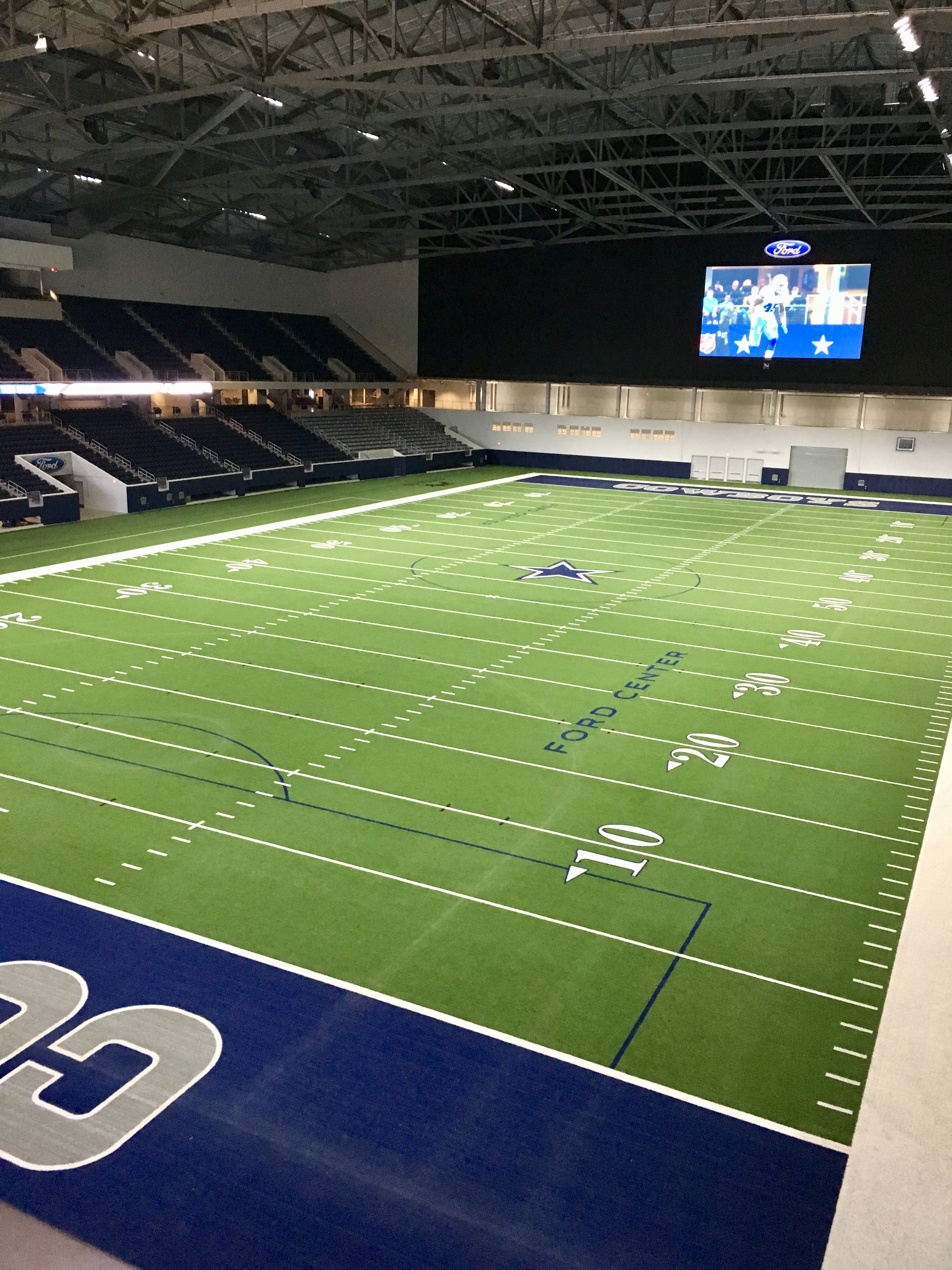 Enclosed and climate controlled regulation football field at Ford Center at the Star in Frisco, Texas, May 2018.